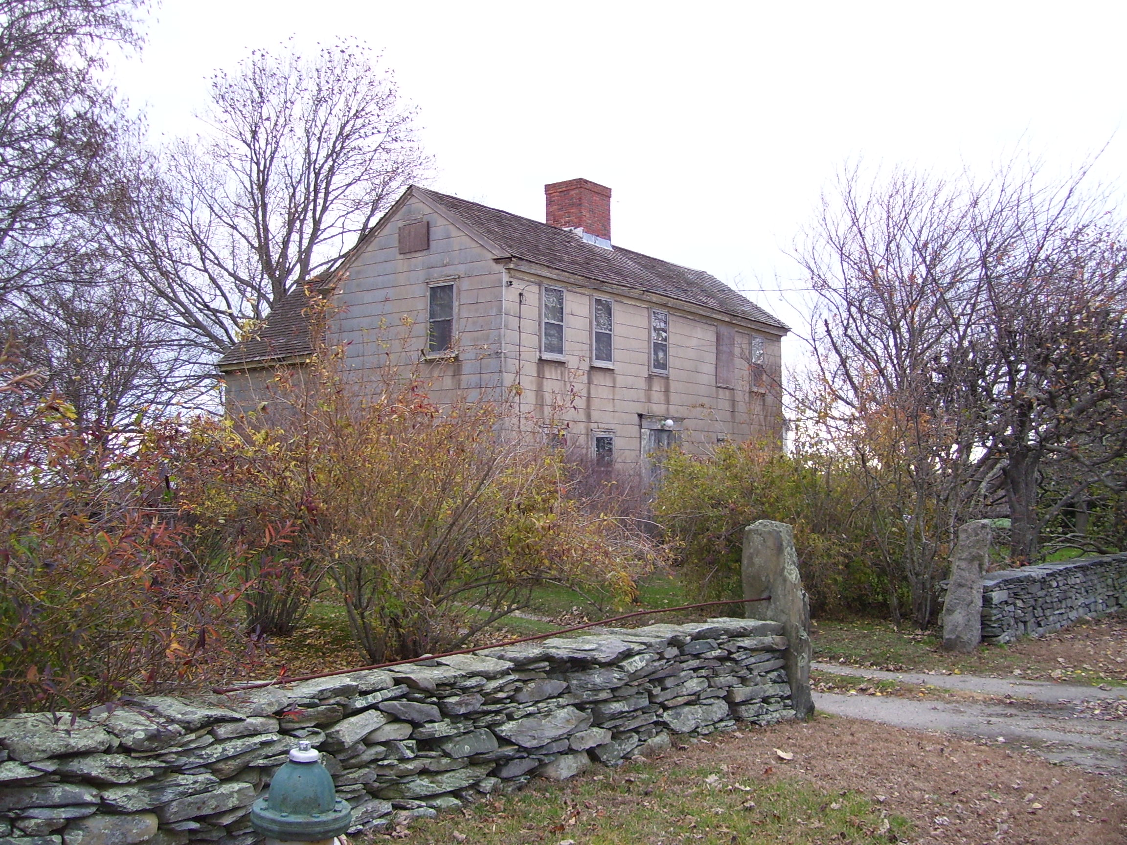 This is my 2008 photo of Lawton-Almy-Hall in Portsmouth, Rhode Island.